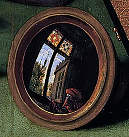 part of Image:Quentin_Massys_001.jpg